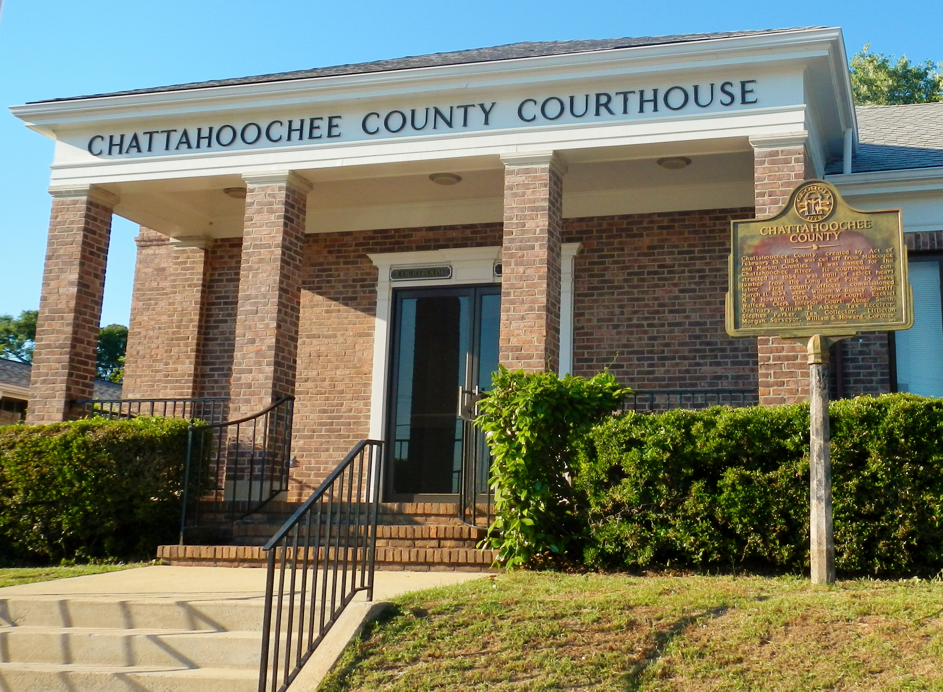 This is a photograph of the Chattahoochee County Courthouse located in Cusseta, Georgia.